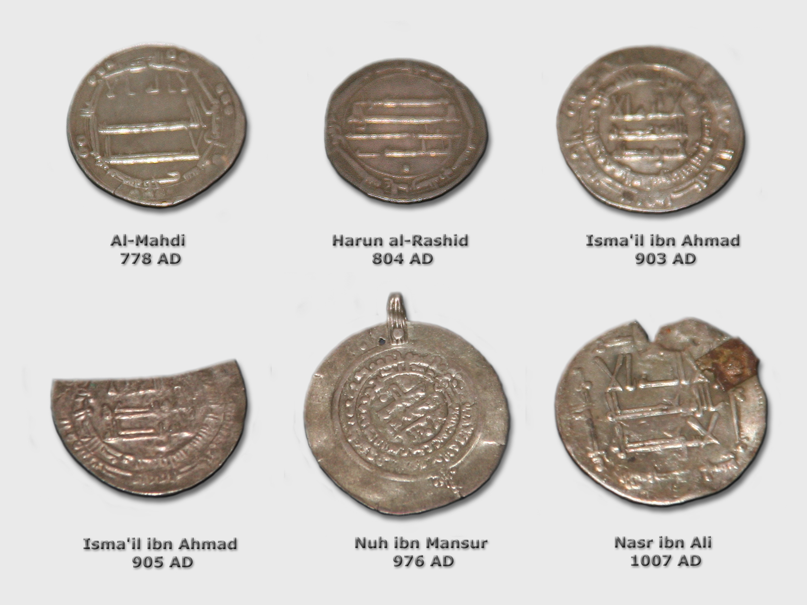 Dirham hoards from Estonia: Al-Mahdi 778 AD; Harun al-Rashid 804 AD; Isma'il ibn Ahmad 903 AD; Isma'il ibn Ahmad 905 AD; Nuh ibn Mansur 976 AD; Nasr ibn Ali 1007 AD. Taken at the Estonian History Museum.